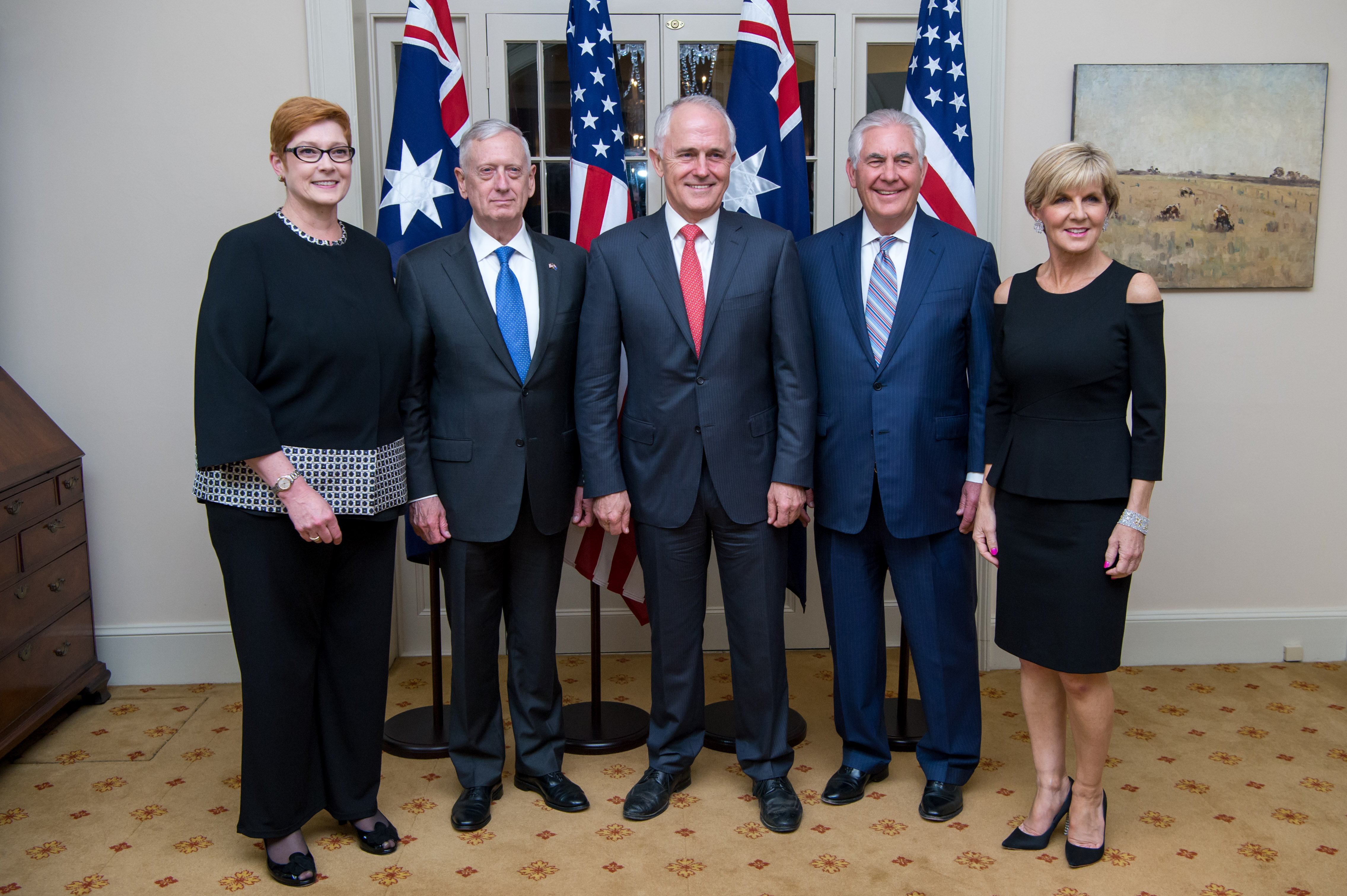 Marise Payne, Australia’s minister for defence; Secretary of Defense Jim Mattis; Australian Prime Minister Malcolm Turnbull; Secretary of State Rex W. Tillerson; and Julie Bishop, the Australian minister for foreign affairs, pose for a photo at the Kiribilli House in Sydney, Australia, June 5, 2017. (DOD photo by U.S. Air Force Staff Sgt. Jette Carr)